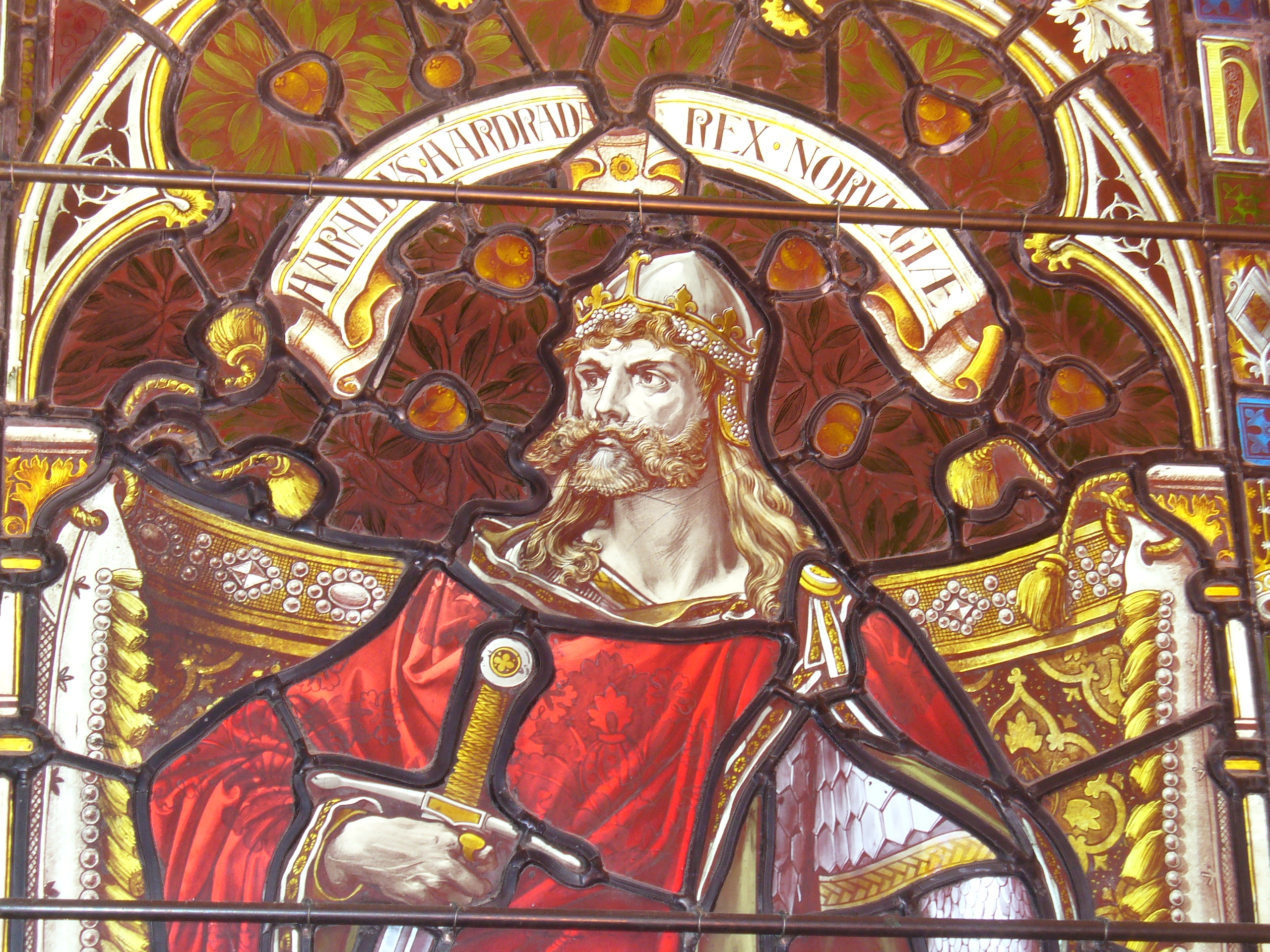 Harald Hardrada